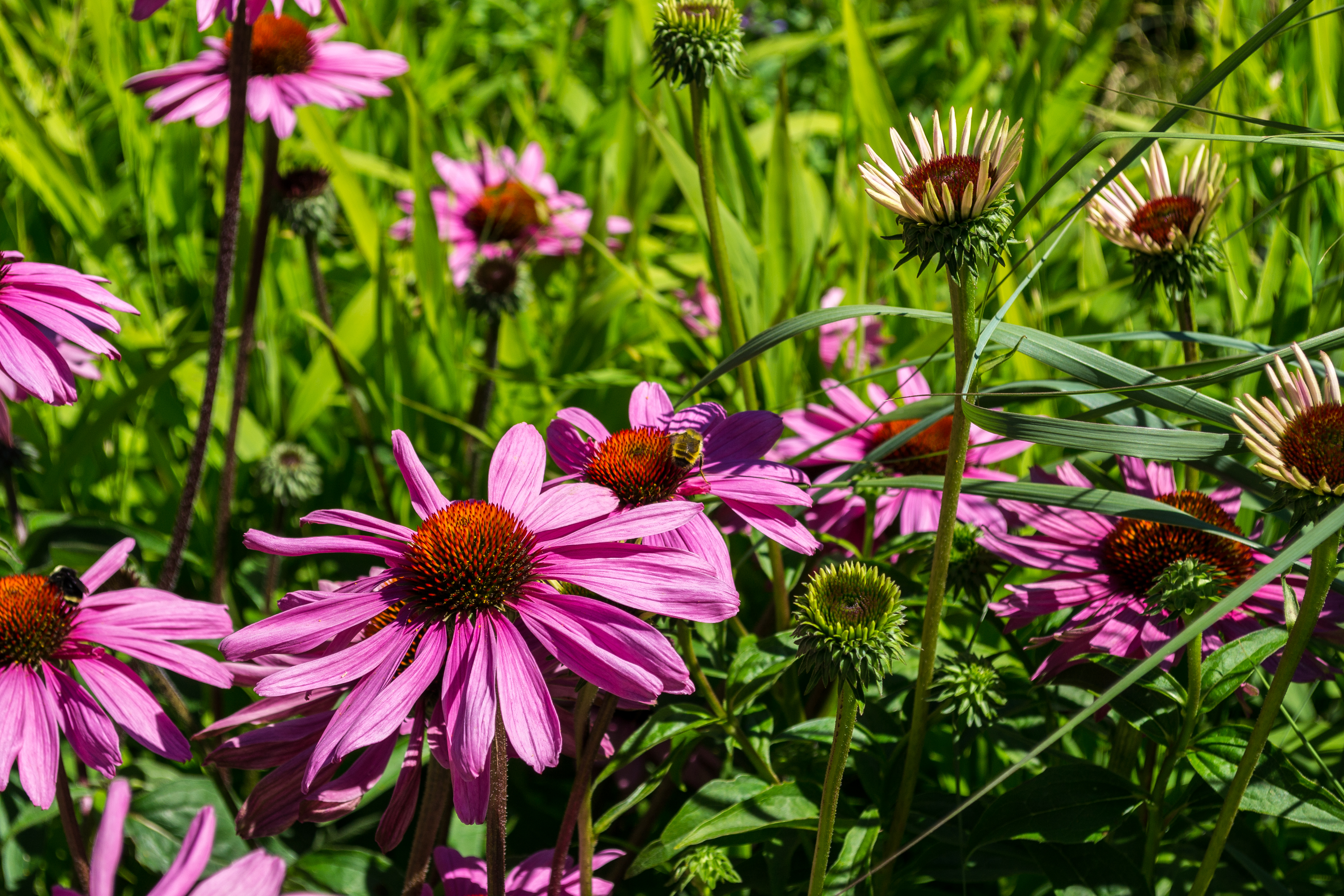 Echinacea purpurea at the University of British Columbia